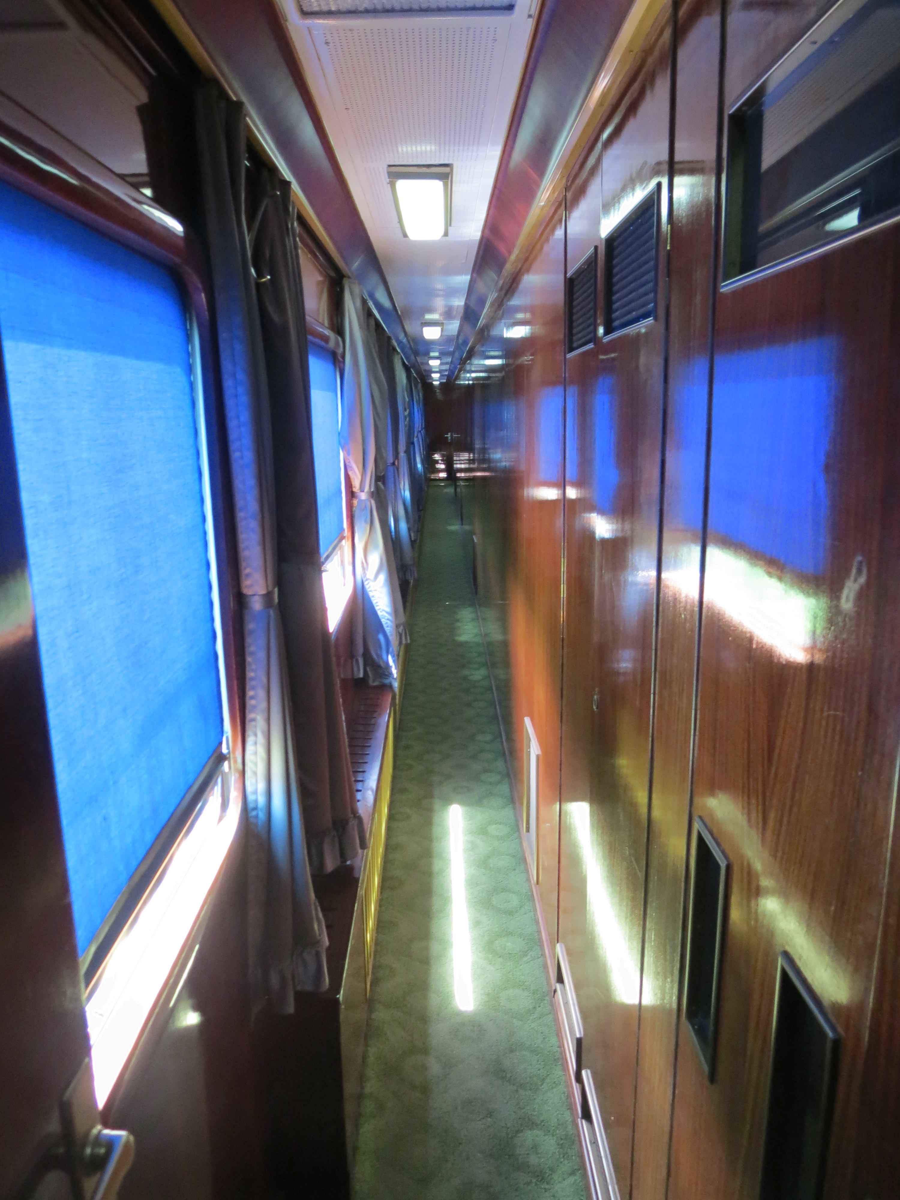 Corridor in Plavi voz, the state train of Yugoslav President Josip Broz Tito.